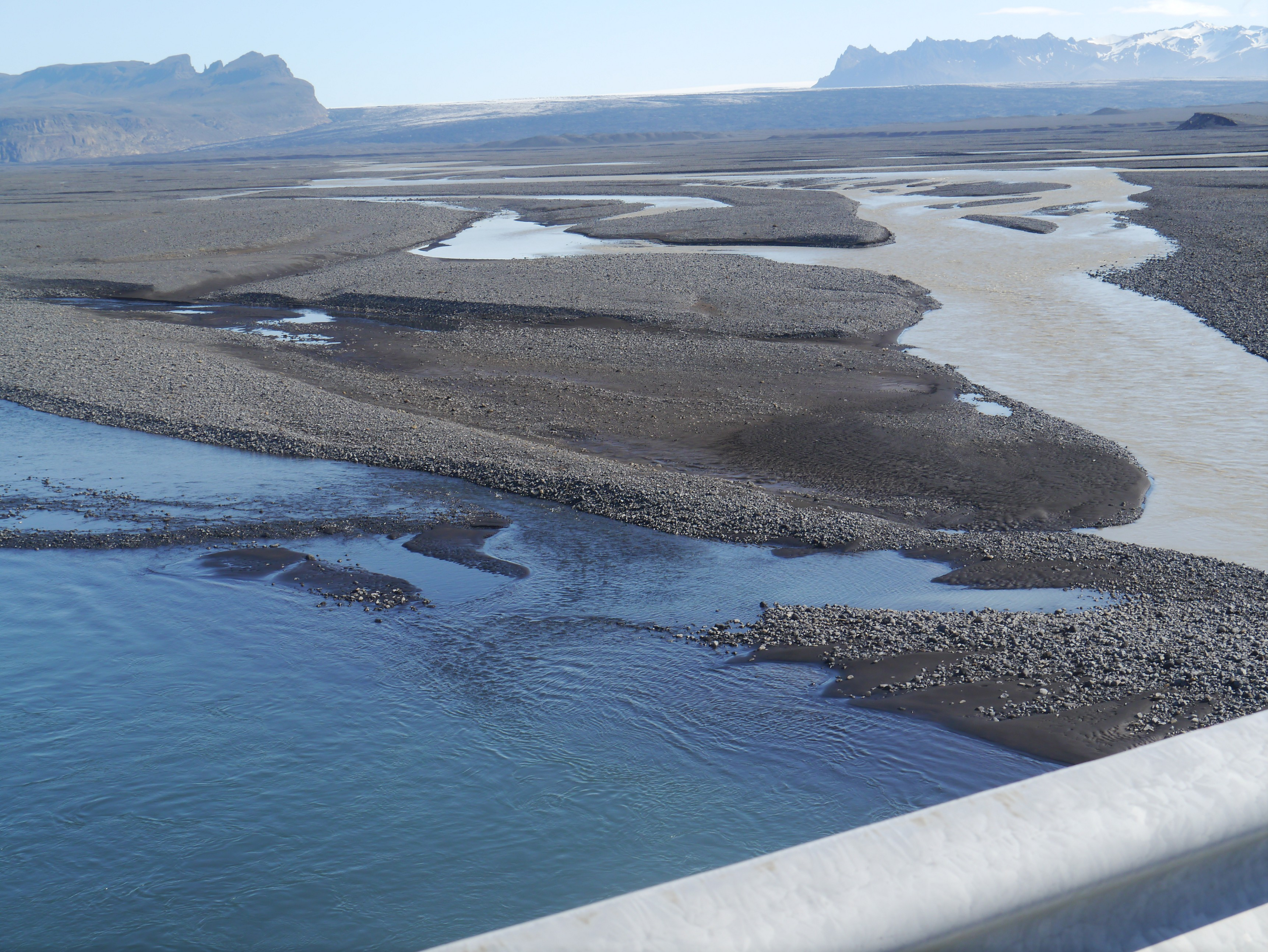 along the Southern Coast on the Ring Road, Iceland